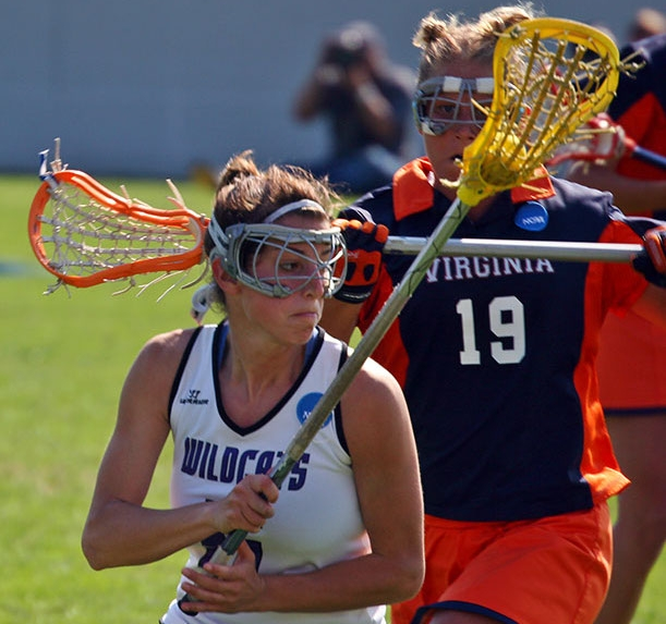 2005 NCAA Women's Lacrosse Championship in Annapolis, MD: Virginia Cavaliers and Northwestern University Wildcats Aly Josephs with Amy Appelt behind